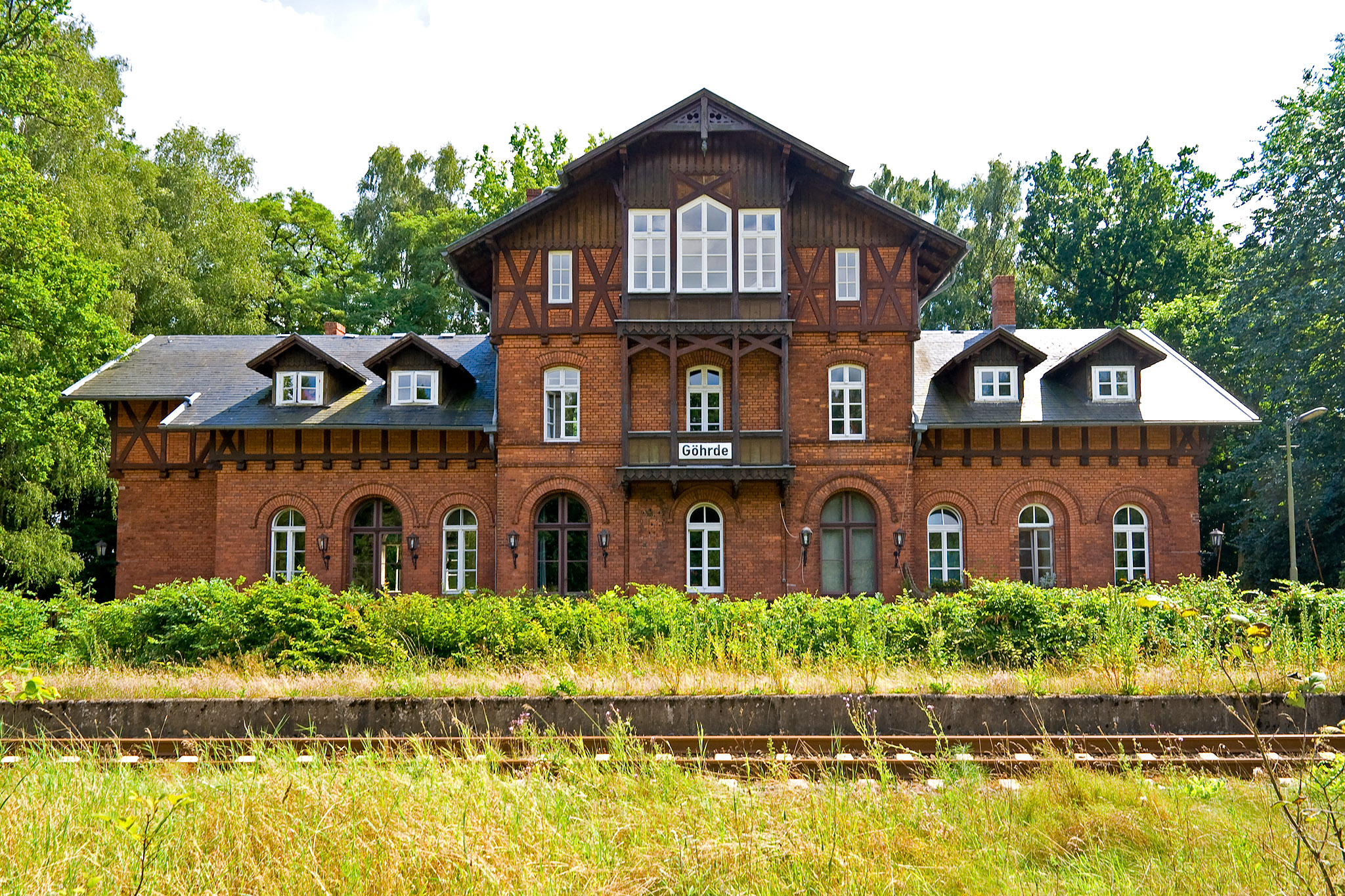 Göhrde train stop.